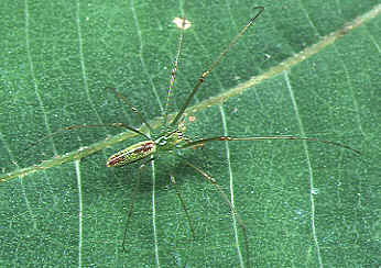 male Tetragnatha squamata from Okinawa.